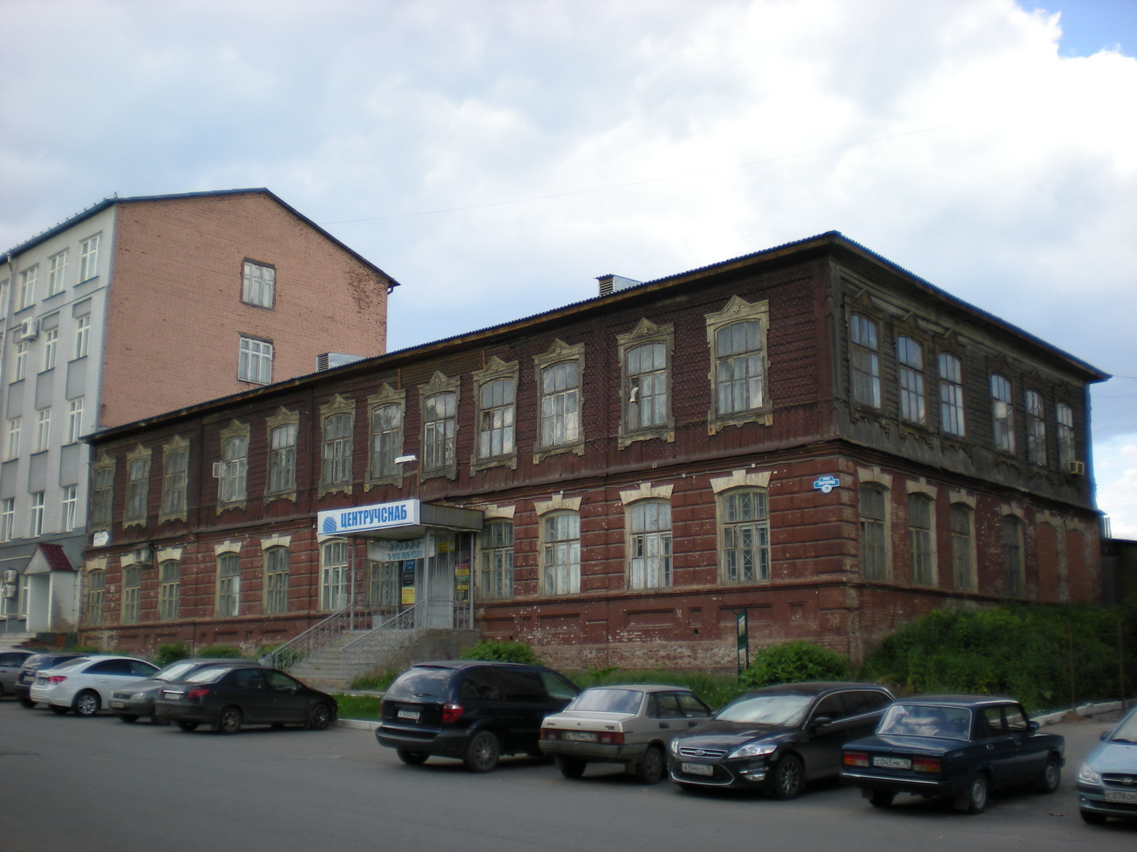 The building of Izhevsk woman's gymnasium (1909) in Sverdlova StreetУдмурт: Ижкарысь кышно гимназилэн юртэз Свердлов урамын (1909)